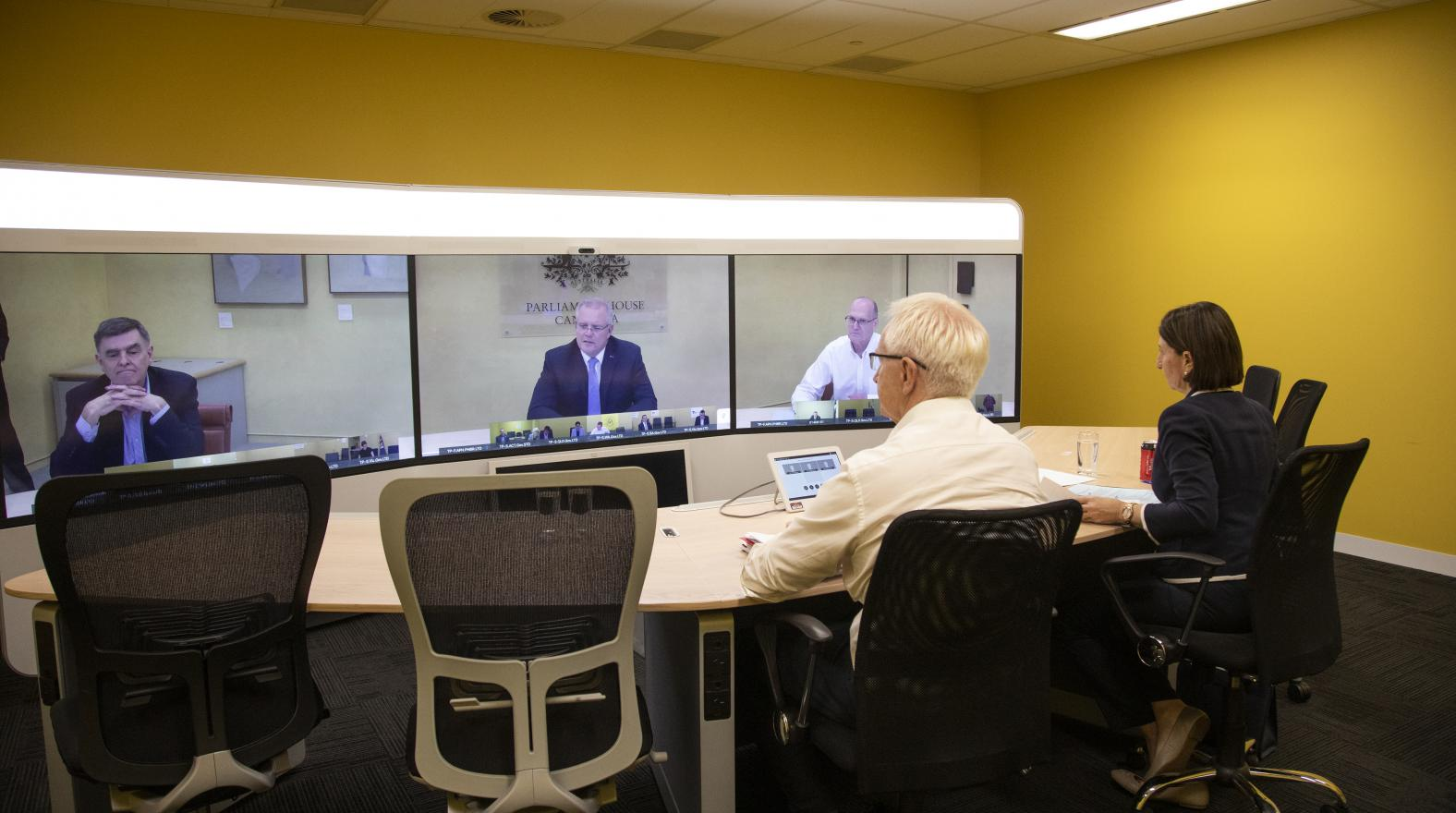 A photo from the NSW Government showing a National Cabinet meeting.